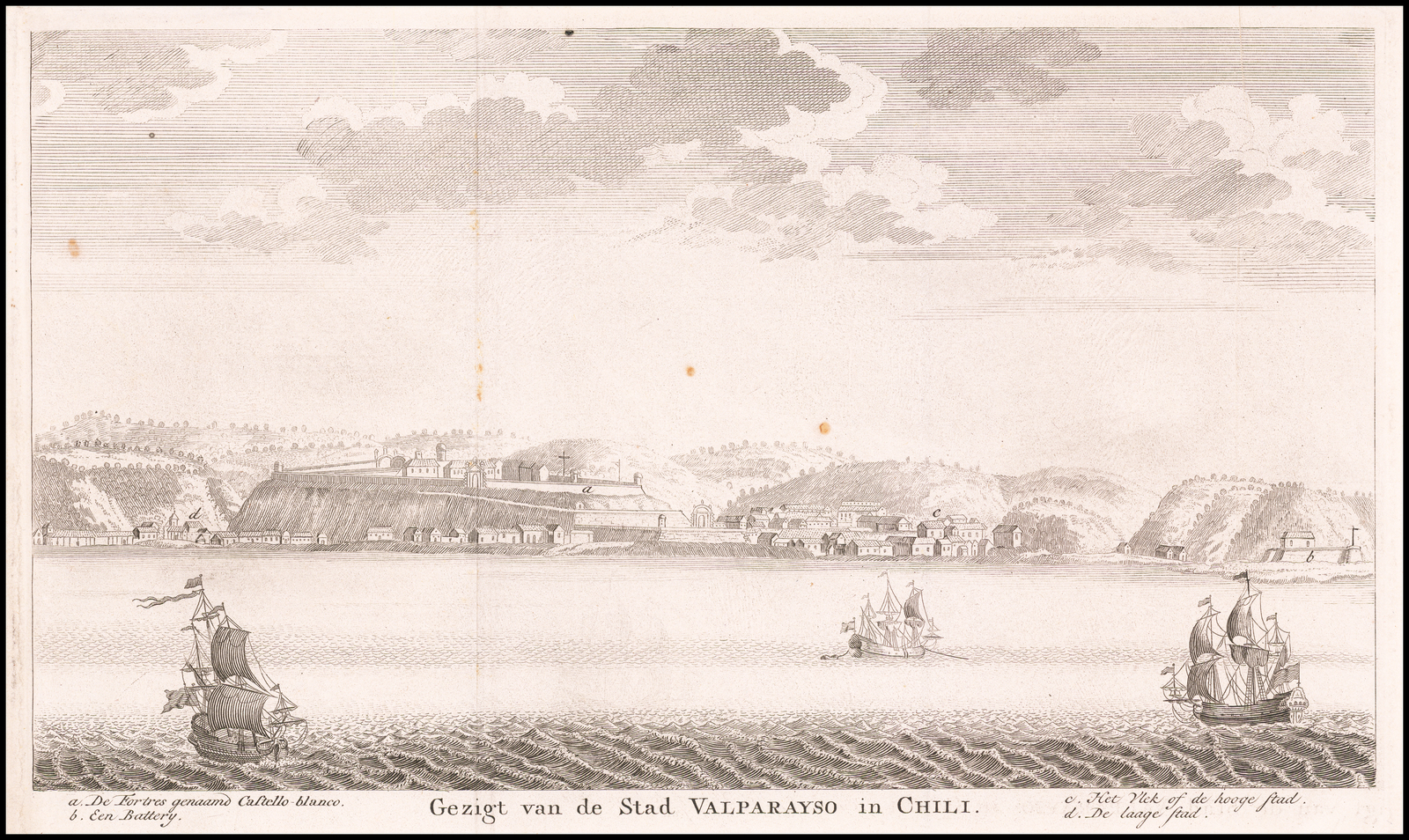 Isaak Tirion Gezigt van de Stad Valparayso in Chili Amsterdam 1766